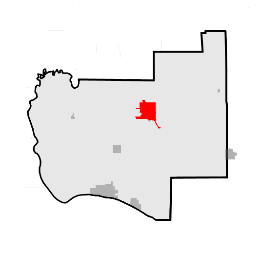 This is a map of Jersey County, Illinois, United States, which highlights the location of the municipality of Brighton.